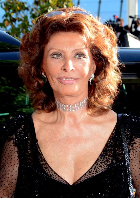 Sophia Loren at the Cannes Film Festival